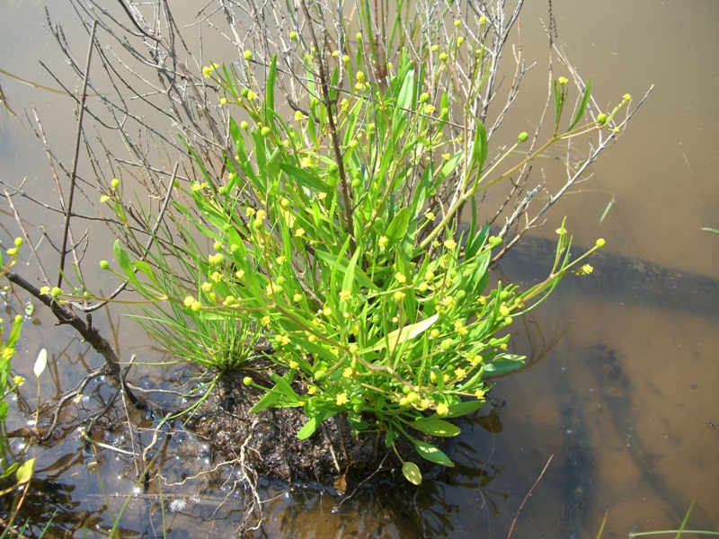 A coastal Provençal endemic Ranunculaceae (Ranunculus revelieri subsp. rodiei) in a temporary lake of the Palayson Plaine (Roquebrune-sur-Argens, Provence)